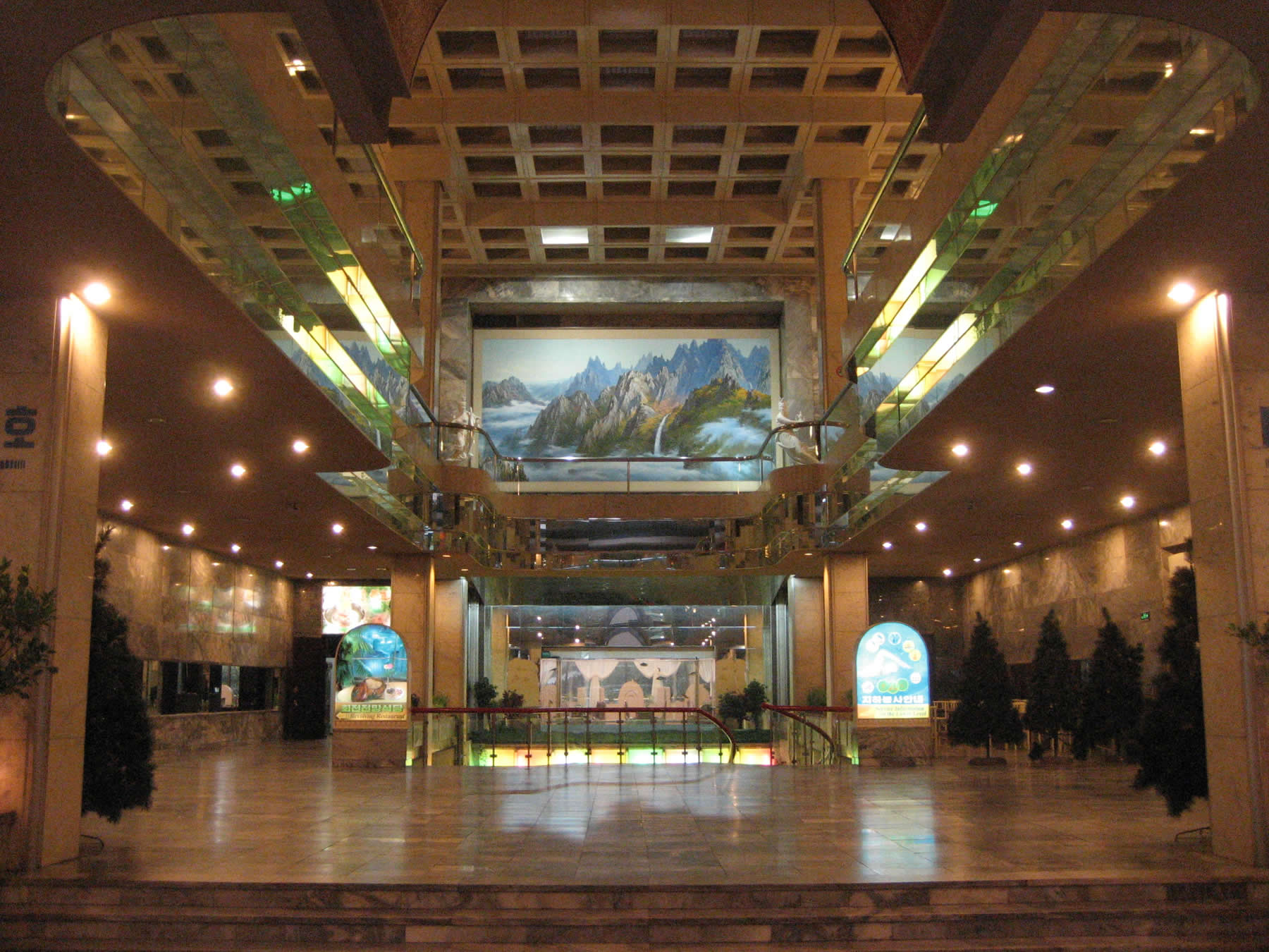 The lobby of the upscale Koryo Hotel (1985) in Pyongyang.